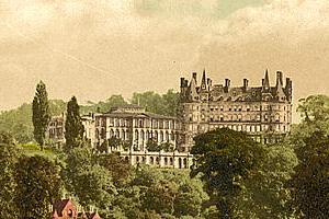 Crop of postcard view of Star and Garter Hotel in Richmond, from over the Thames. Published by Detroit Publishing Company in 1905. Created circa 1890-1900. More information here.